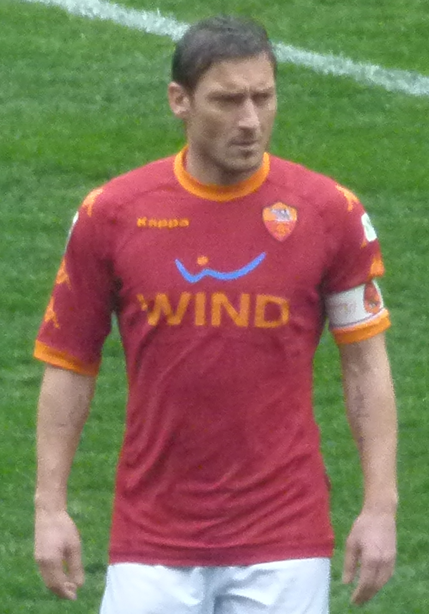 Francesco Totti in Rome Derby (13 MAR 2011)